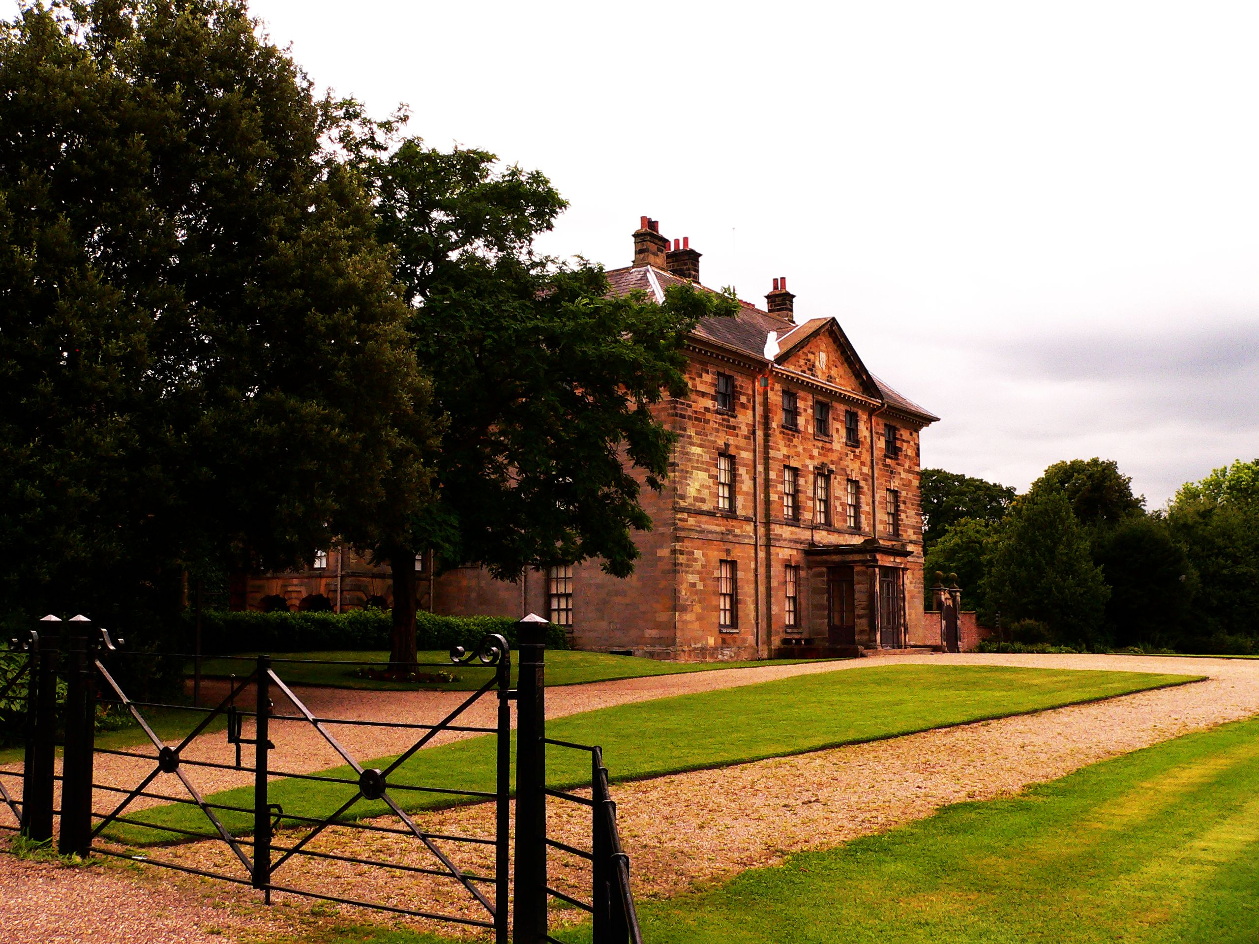 Ormesby Hall, Ormesby, Redcar and Cleveland